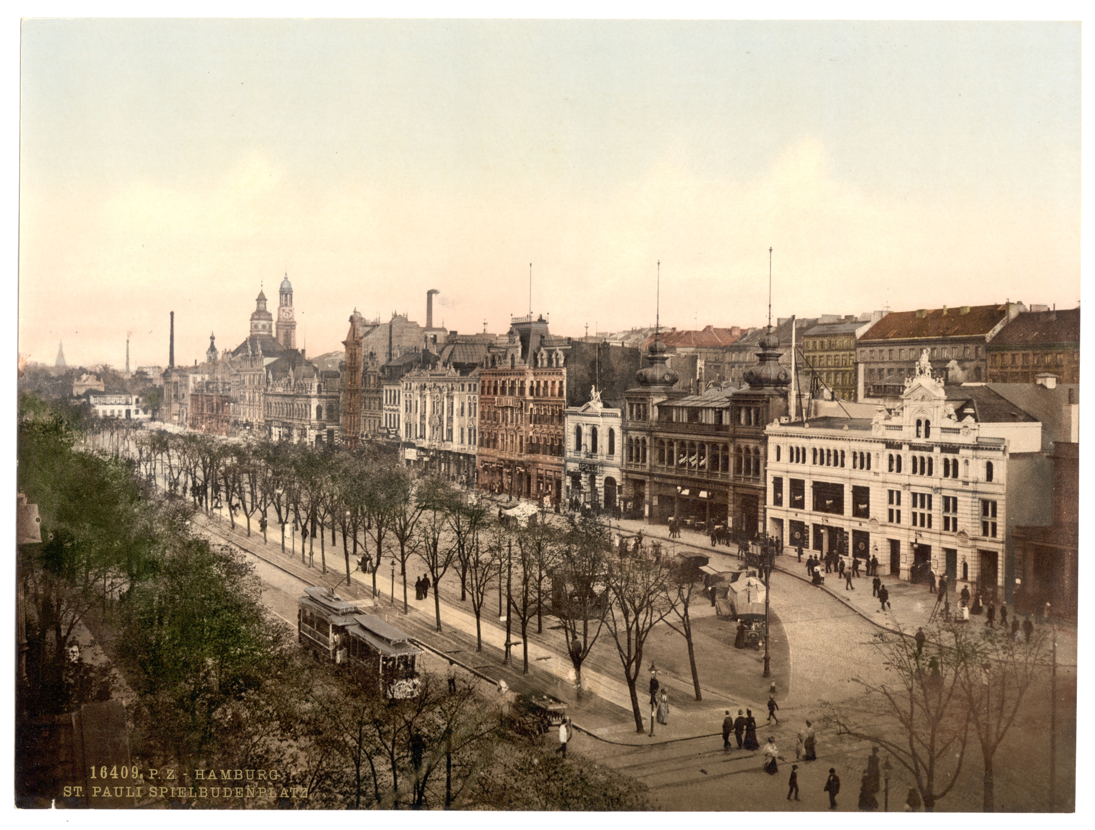 Print no. "16409".; Title from the Detroit Publishing Co., catalogue J-foreign section. Detroit, Mich. : Detroit Photographic Company, 1905..; Forms part of: Views of Germany in the Photochrom print collection.